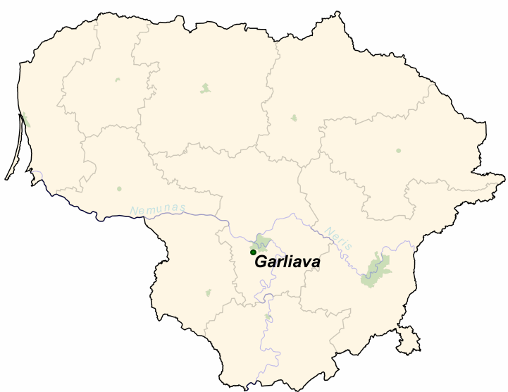 Garliava (near Kaunas) on the map of Lithuania.